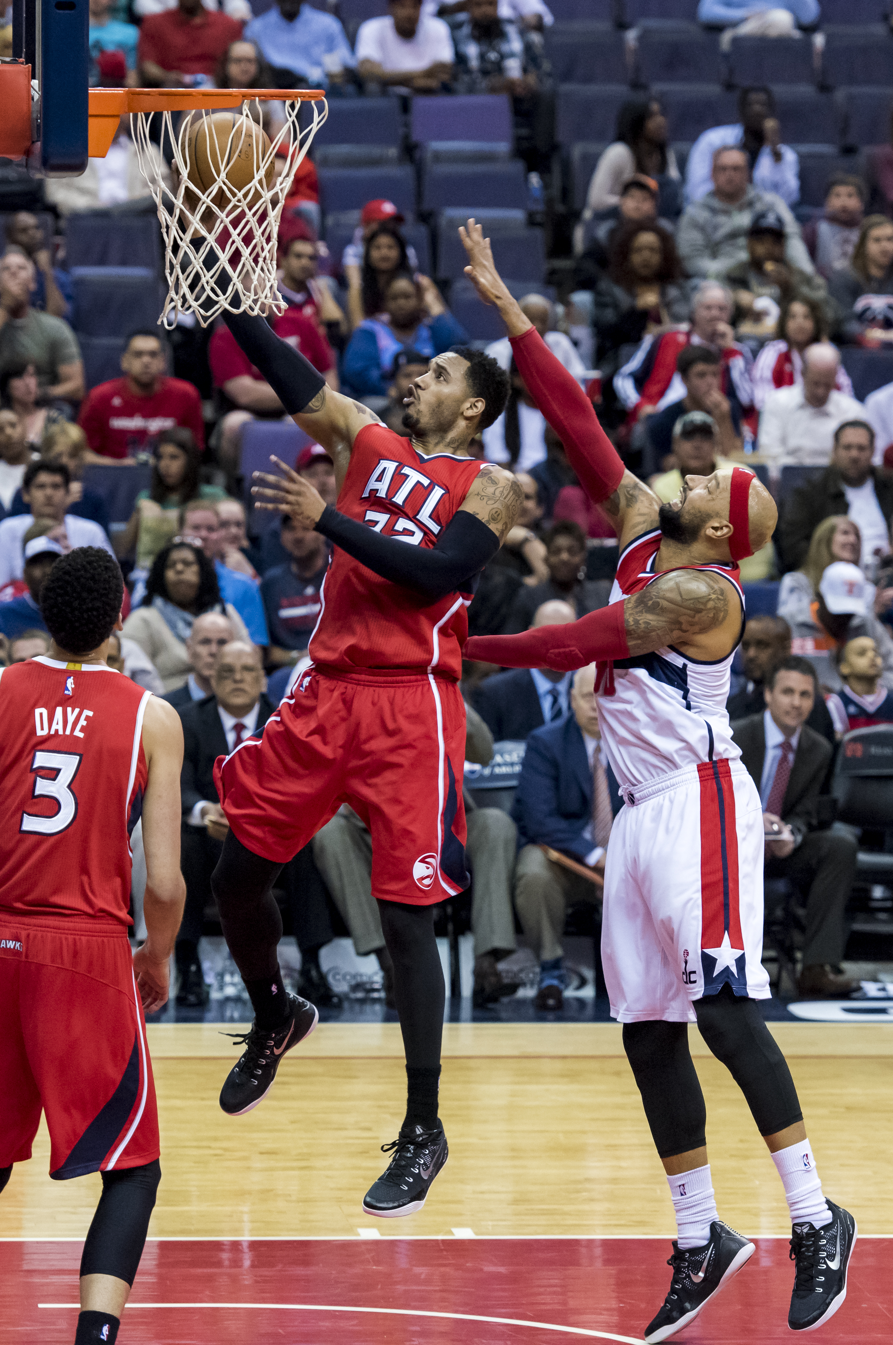 Mike Scott of the Atlanta Hawks, making a lay-up against the Washington Wizards at the Verizon Center